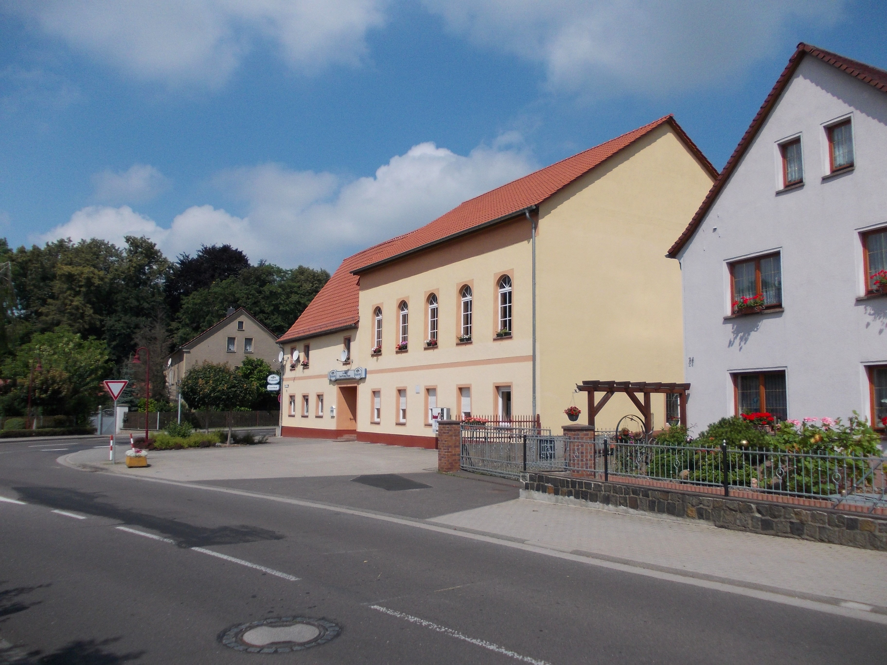 Kitzscher inn (Leipzig district, Saxony)